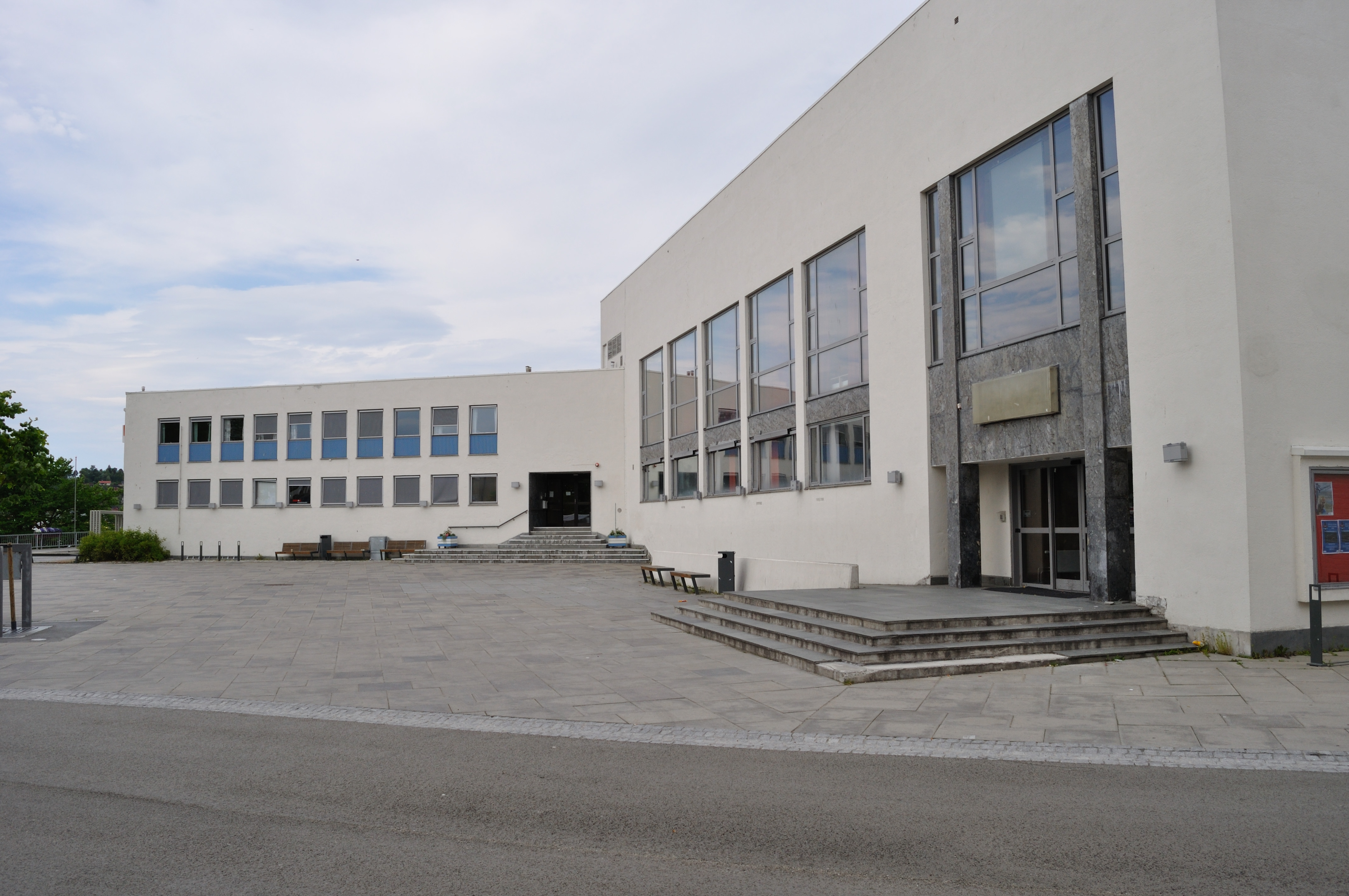 Architectural image of Studenten, formerly county office in Steinkjer, now in use as a youth center and concert hall.